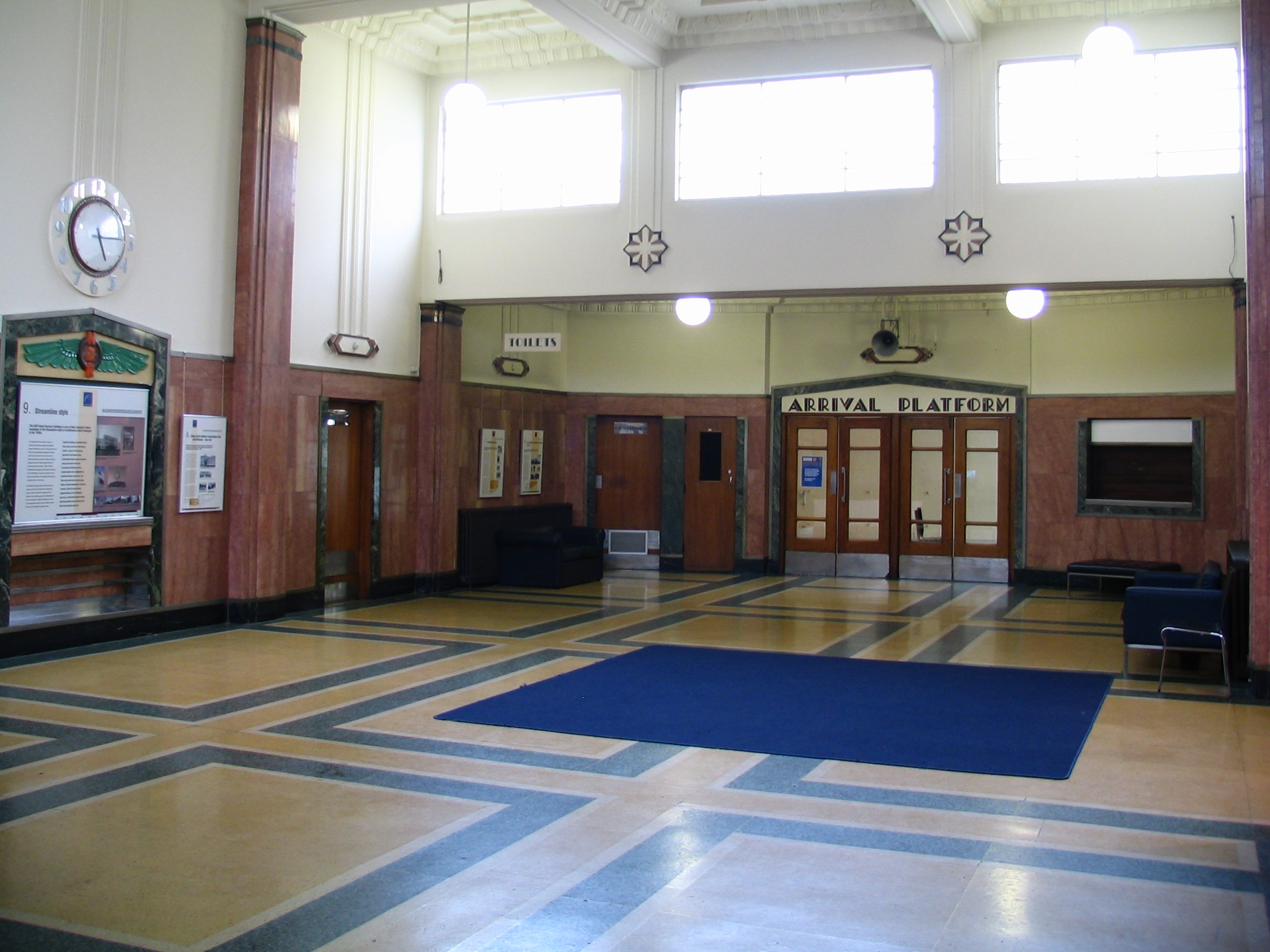 Interior view of the Bus Station Foyer in the Otago Settlers Museum, in Dunedin, New Zealand. Museum website information